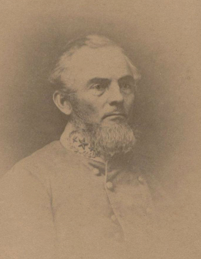 Carte-de-Visite of a bust portrait of General Gideon Johnson Pillow in uniform. Inscription on front: Gen. Pillow. Inscription on back: Gideon J.; Gen., Pillow; Lf. 24; FLA. From the Collections of the Confederate Memorial Literary Society managed by the Virginia Historical Society